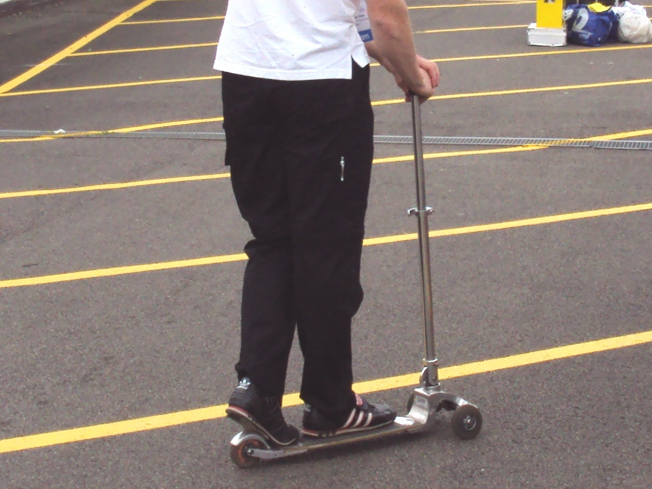 K2 Prokick, known as Kickboard.